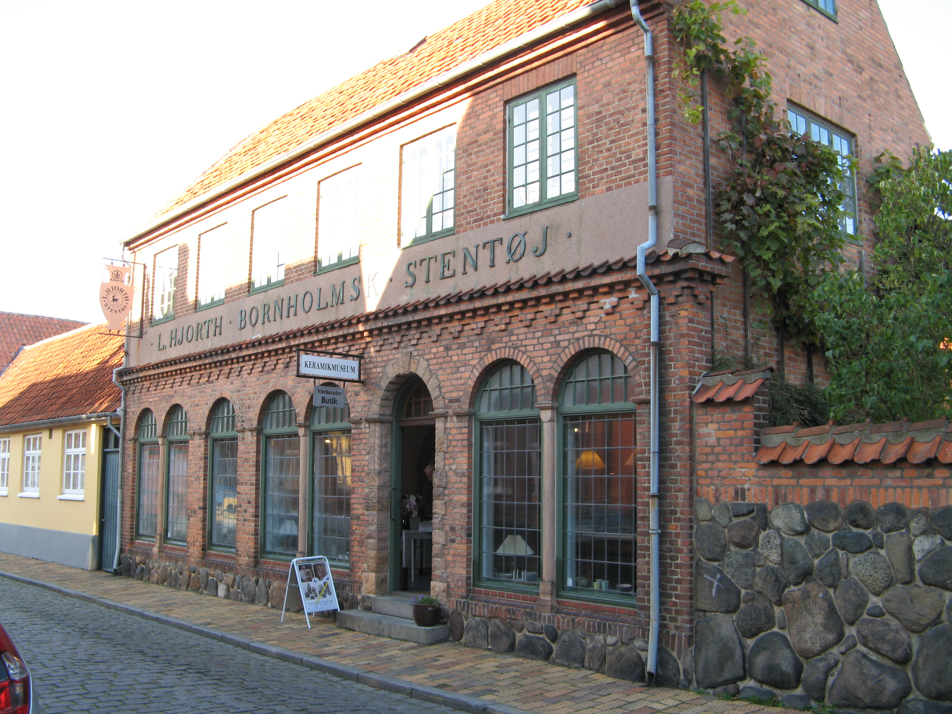 Bornholm, Rønne, Museum of Ceramics